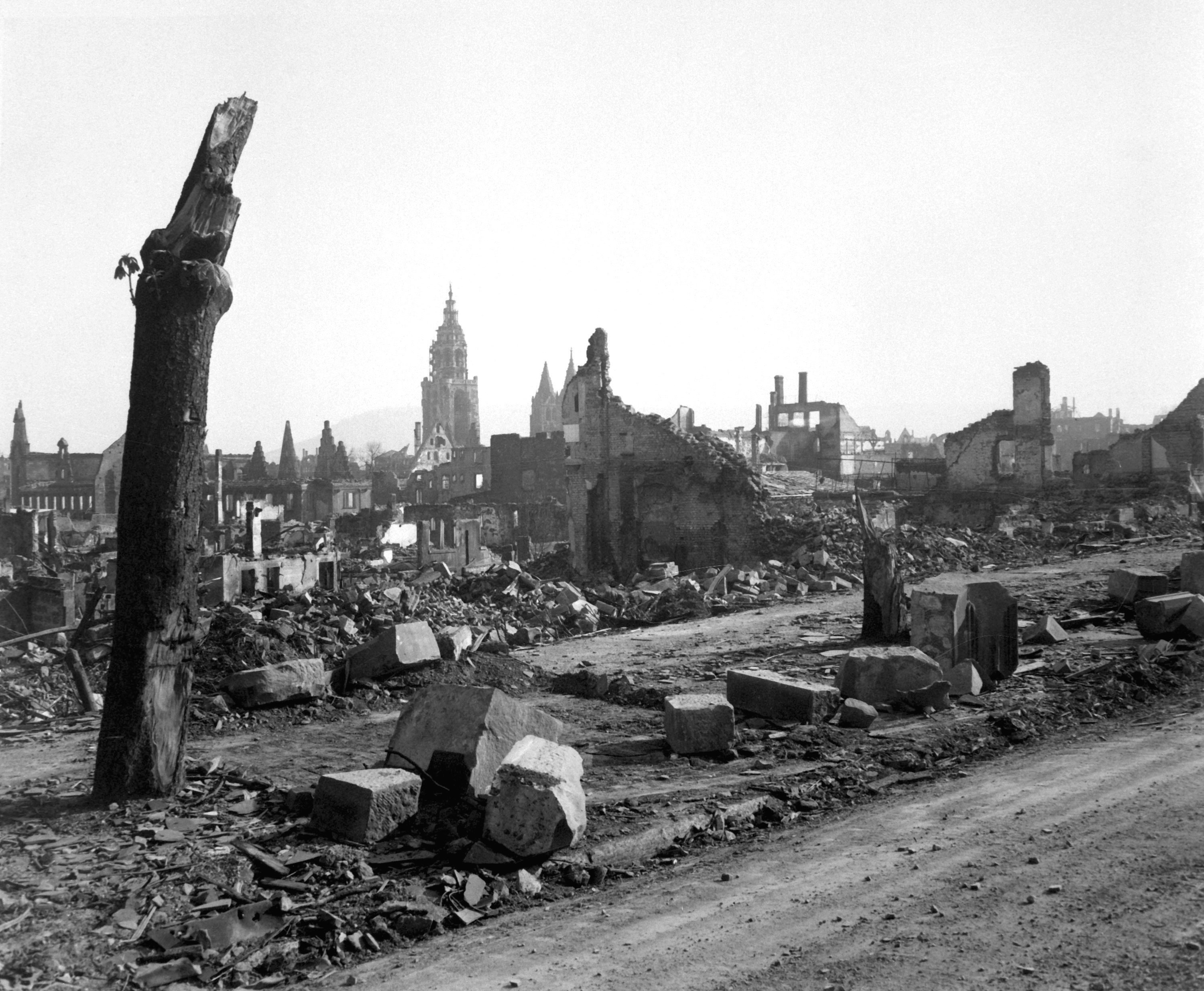 Heilbronn in a panorama. It was one of the three or four most devastated cities in all Europe.